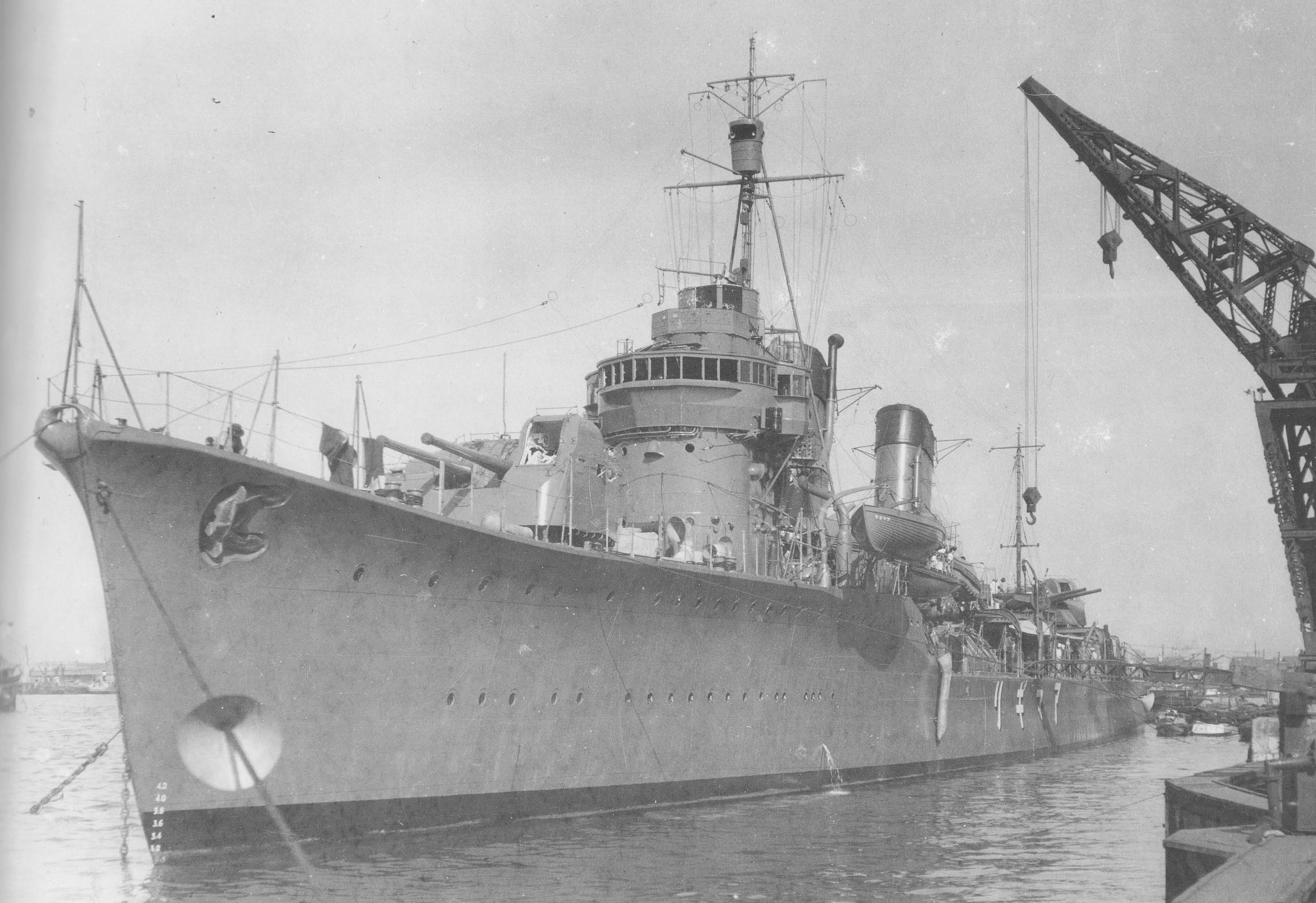 Imperial Japanese Navy destroyer Amagiri